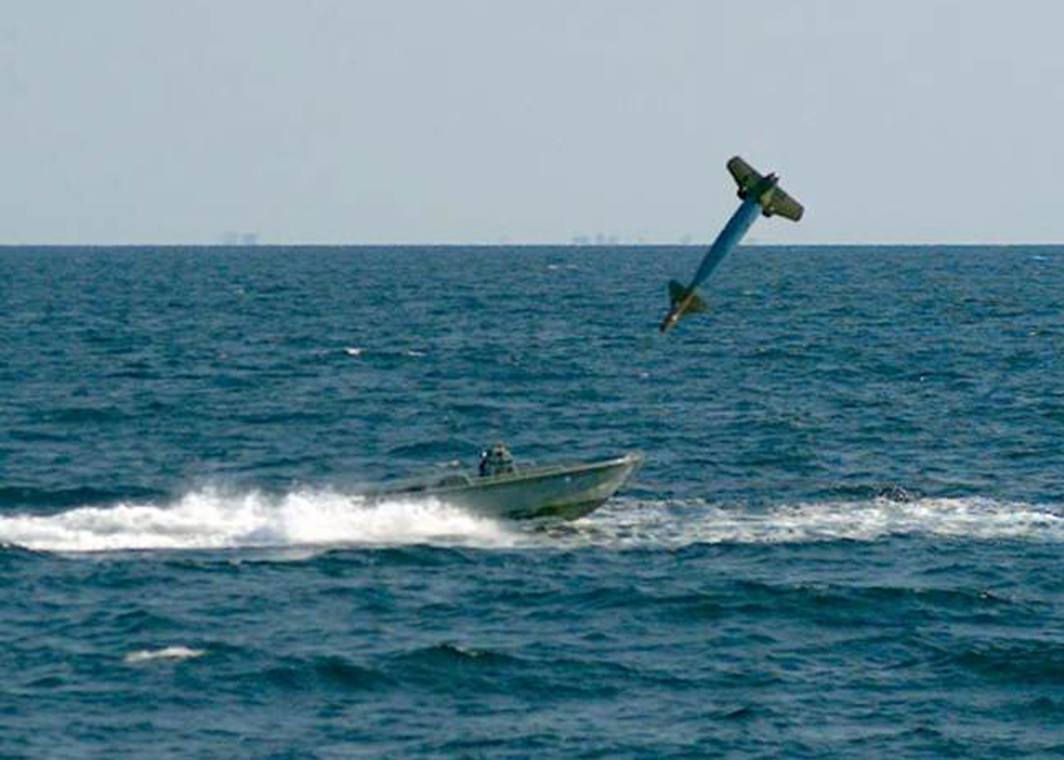 A laser-guided GBU-10 dropped from a fighter aircraft targets a mobile surface vehicle Sept. 4, 2013, at a training range in the Gulf of Mexico. A B-1B from the 337th Test and Evaluation Squadron, alongside other bomber and fighter aircraft, participated in a maritime tactics development and evaluation with the goal of improving and better understanding the aircraft’s capabilities in a maritime environment.